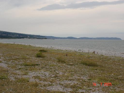 Pensarn Beach. View from Pensarn Beach towards Rhos on Sea along the coast